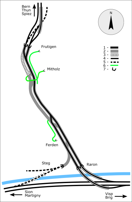 Lötschberg Base Tunnel: 1-tube with rails, 2-only tube, 3-planned tube, 4-rail, 5-planned rail, 6-gallery, 7-portal